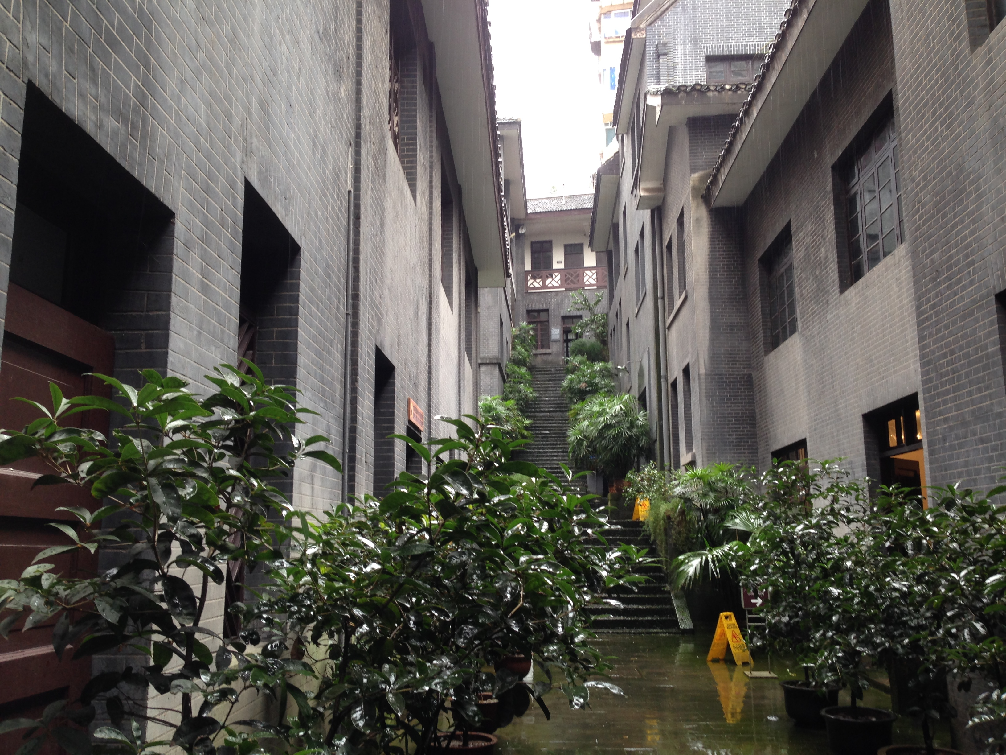 Provisional government of the Republic of Korea Site of Chungking